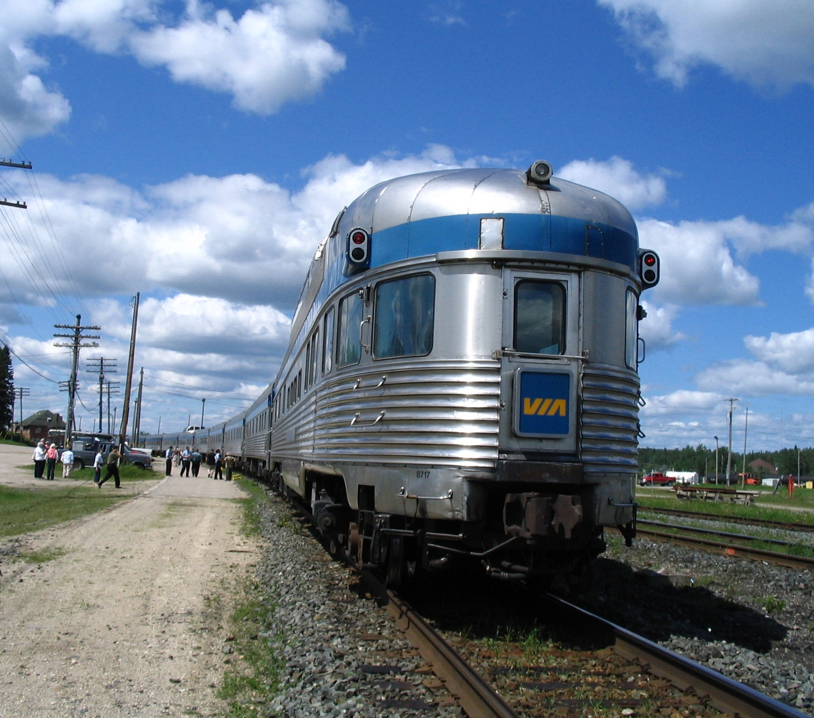 Passengers milling around the train at the station stop in Hornepayne. This is VIA Rail's The Canadian, which makes a 4-day run between Toronto and Vancouver. The lounge car at the back is off-limits to us economy class slobs, but they couldn't stop me from taking a picture of the outside. Take that!